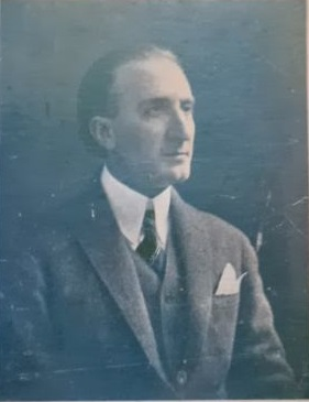 Humberto Zurlo- actor argentino